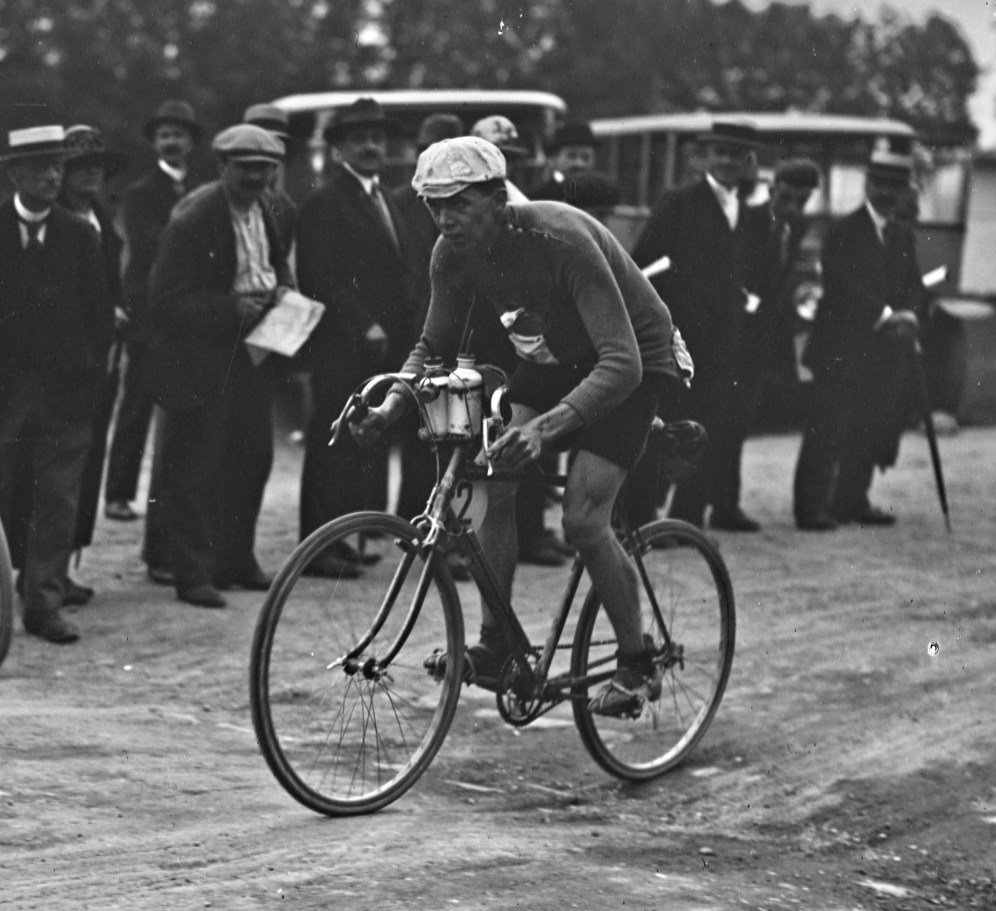 Luis de Meyer at the Road Race Cycling tournament of the 1924 Summer Olympics.